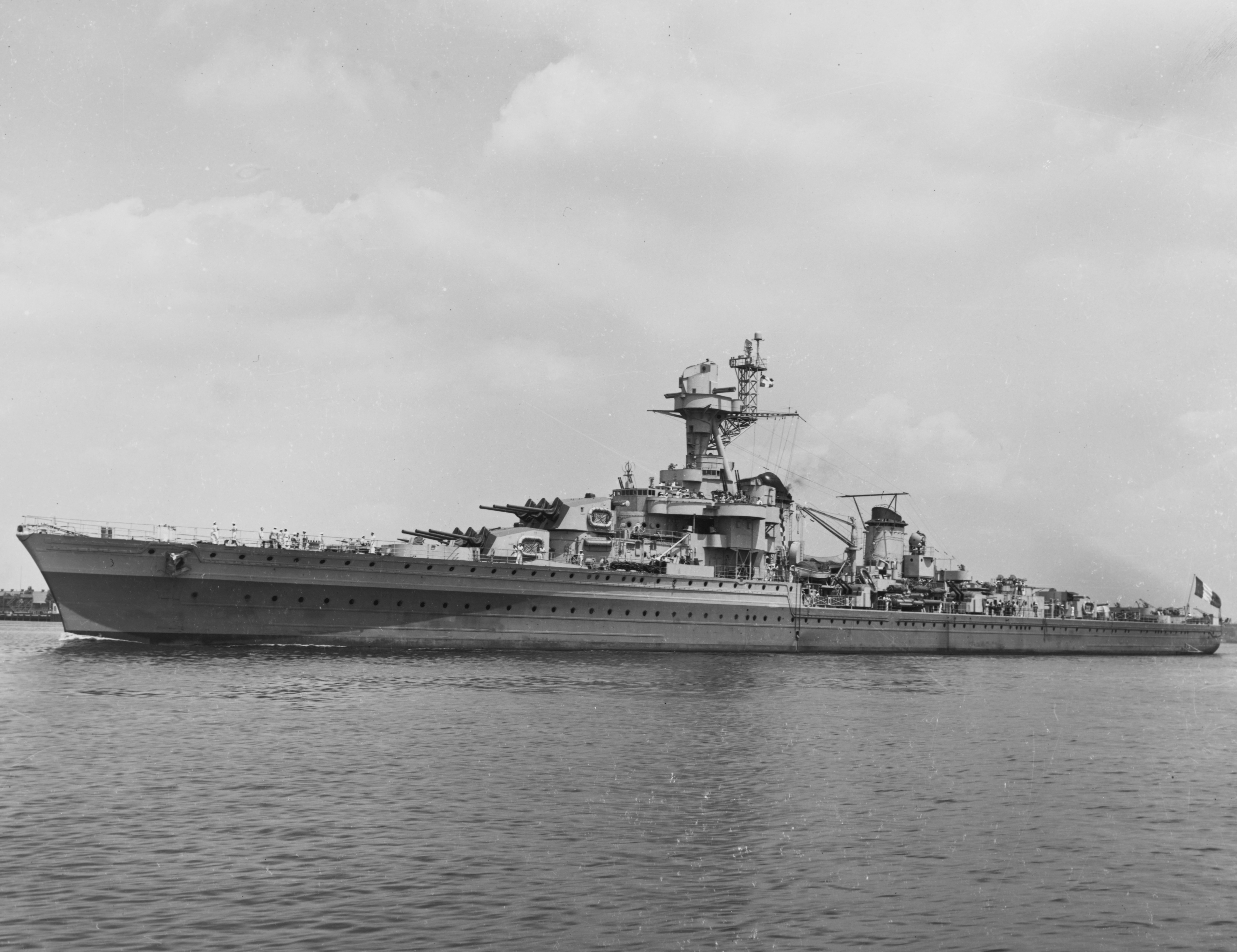 Title: Montcalm (French cruiser, 1935) Caption: Off the Philadelphia Navy Yard, Pennsylvania, 30 July 1943. She had just finished a refit at that Yard. Catalog #: 19-N-48987 Copyright Owner: National Archives Original Date: Fri, Jul 30, 1943